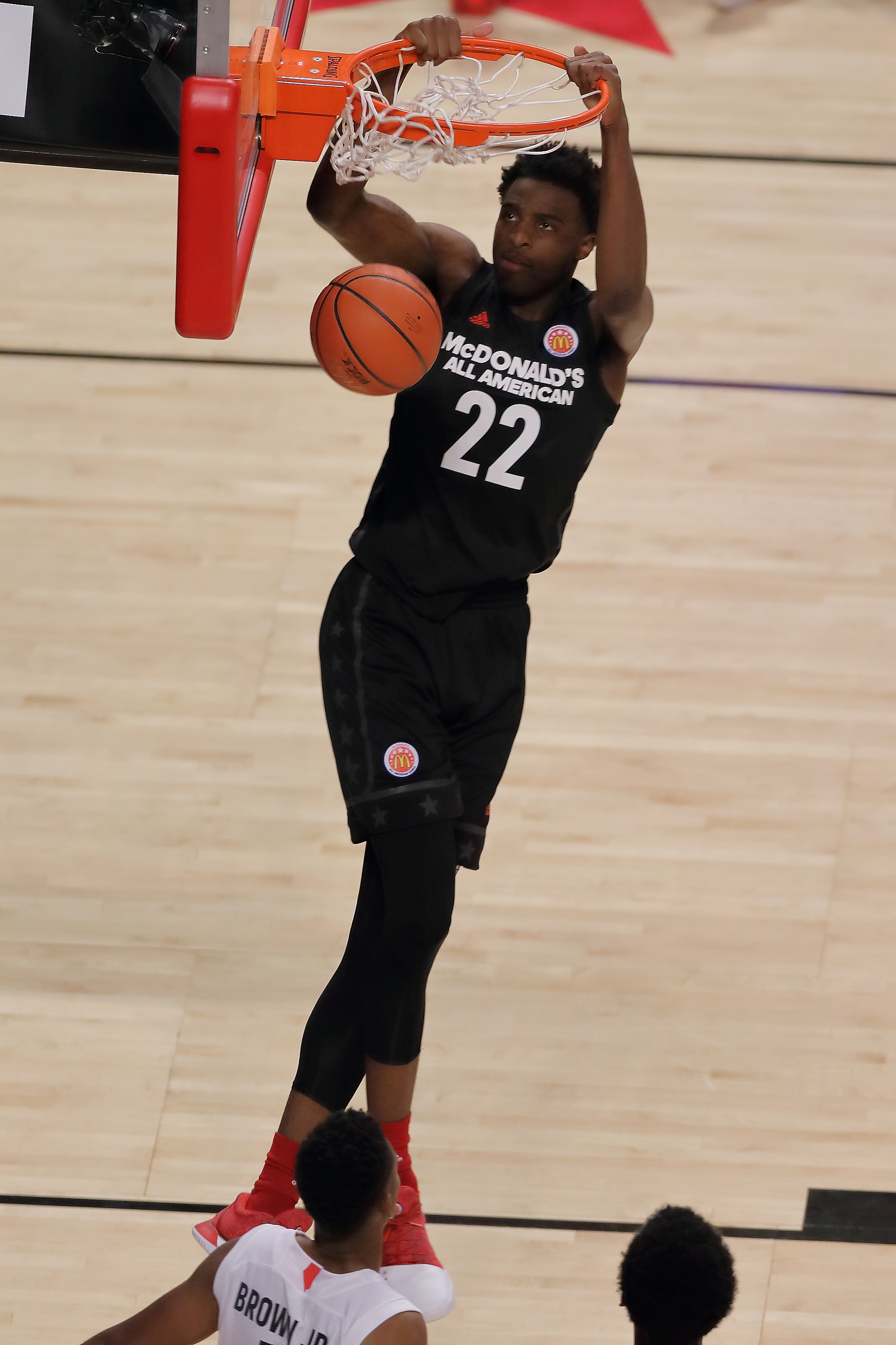 Mitchell Robinson at the w:2017 McDonald's All-American Boys Game